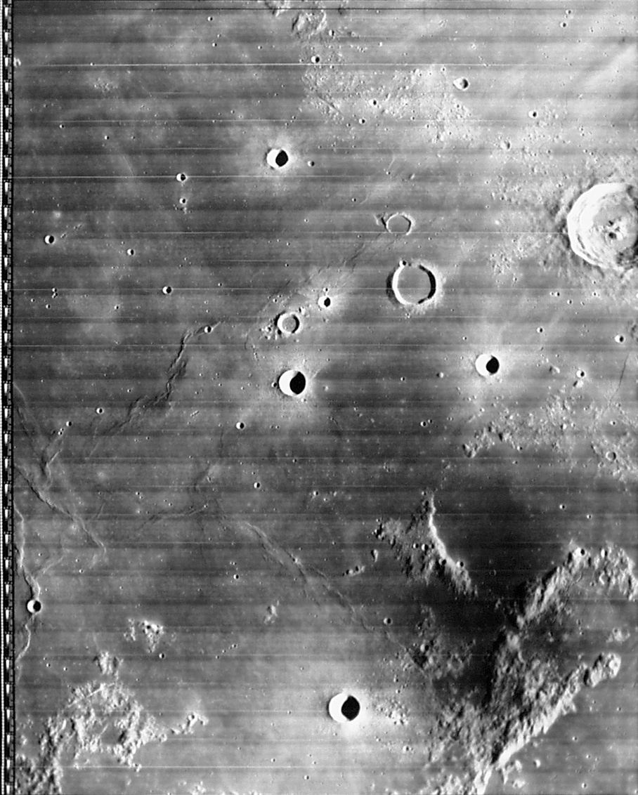 Montes Riphaeus